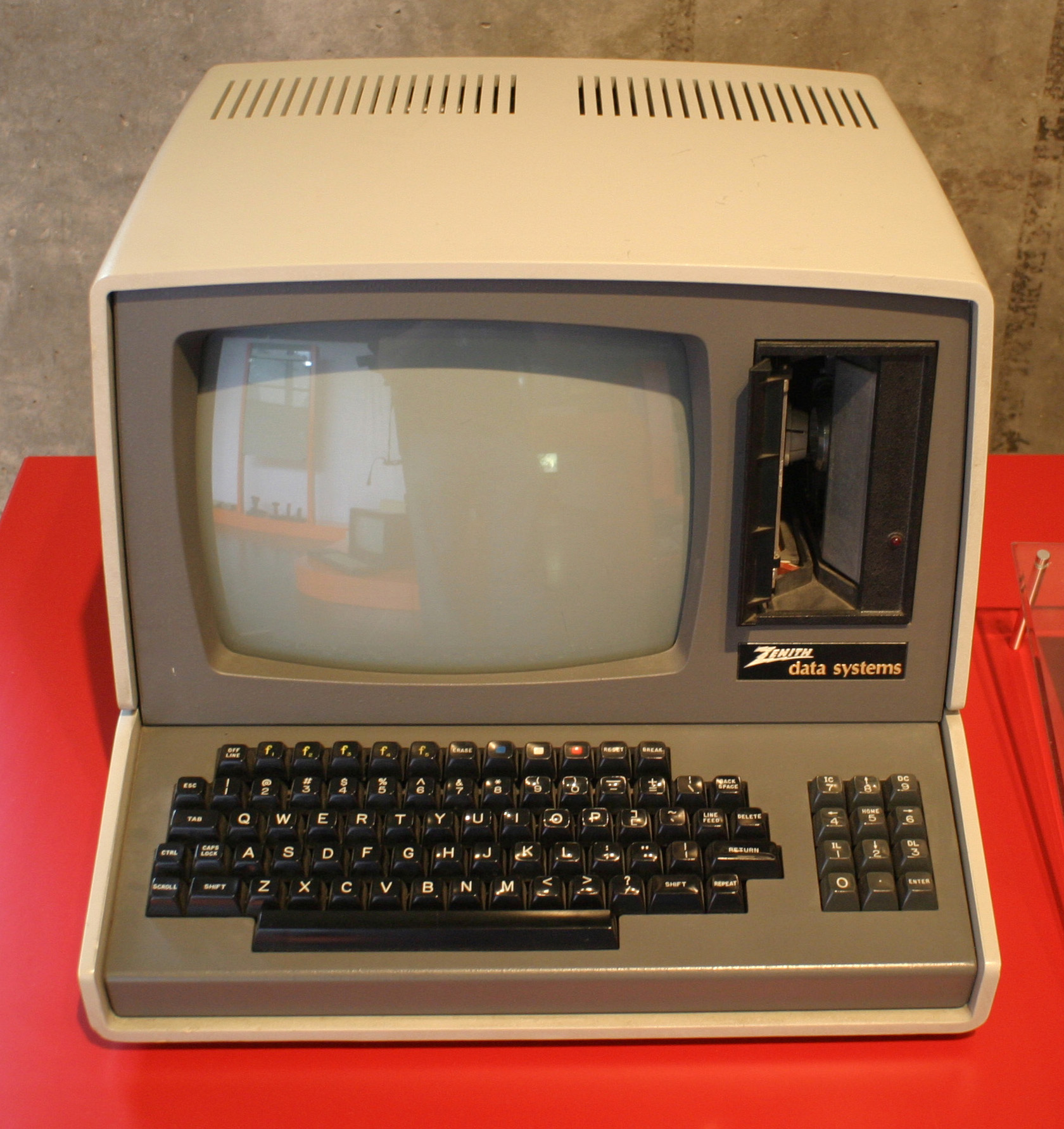 Zenith Z89 in Paris Grande Arche 2008